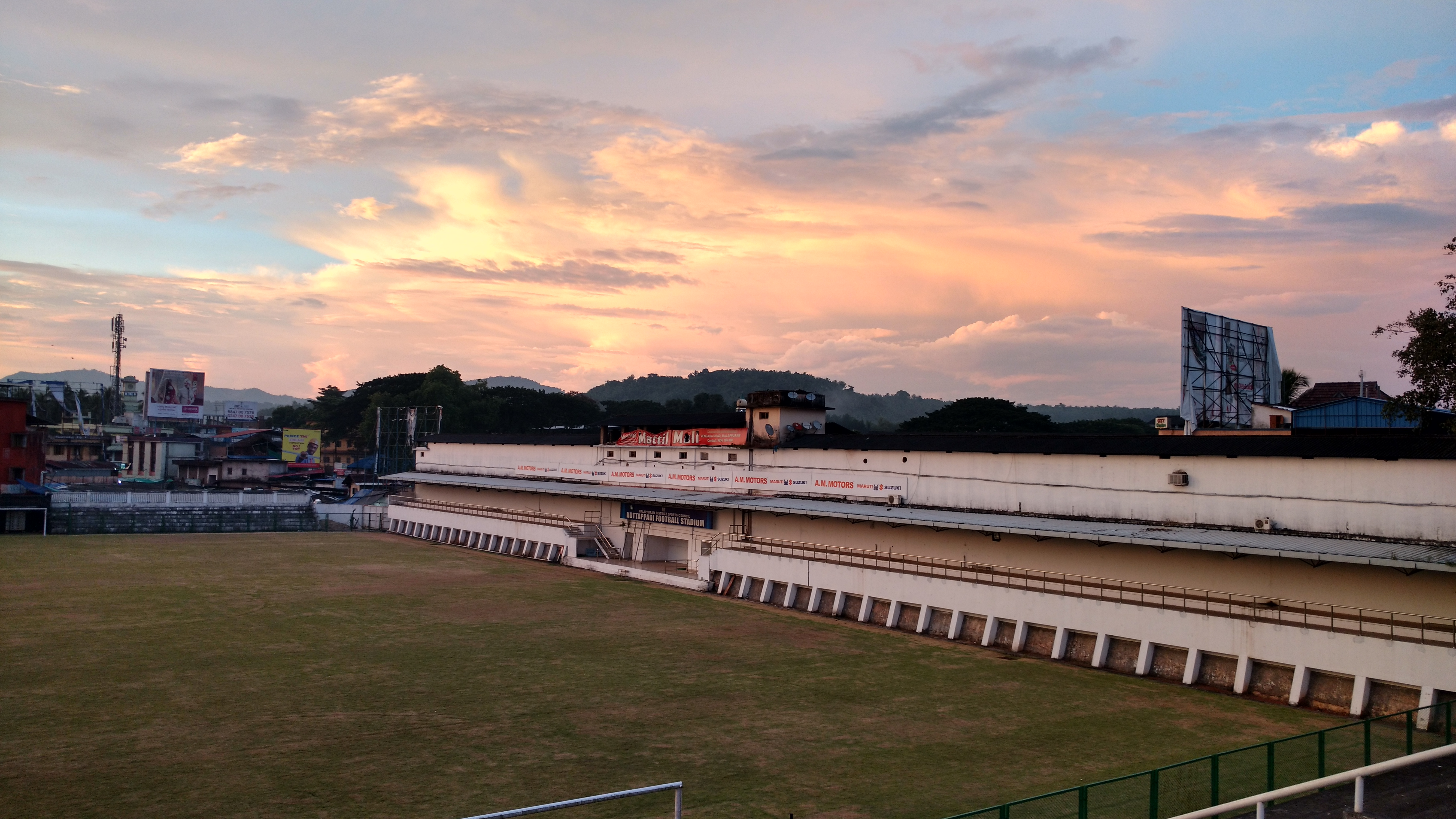 Kottapadi Stadium at Down Hill Malappuram